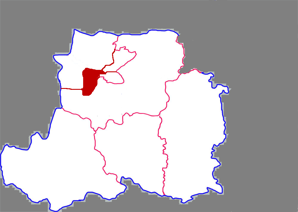 Location of Gulou district in Kaifeng city, China